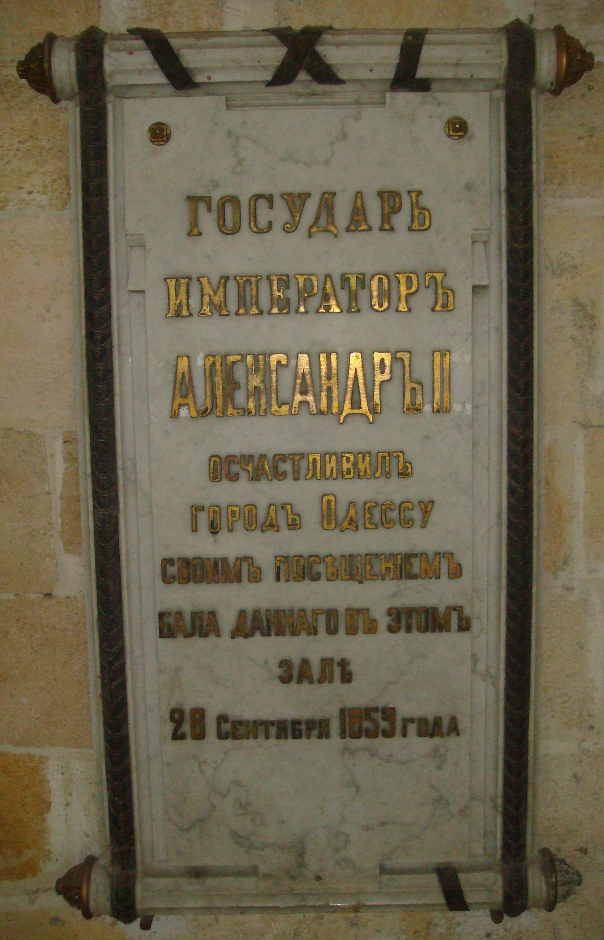 Commemorative plaque dedicated to visit to Odessa city of Russian Czar Alexander II. Was mounted in Odessa City Hall. Dismissed after bolshevik revolution. Present location - Odessa Art Museum.